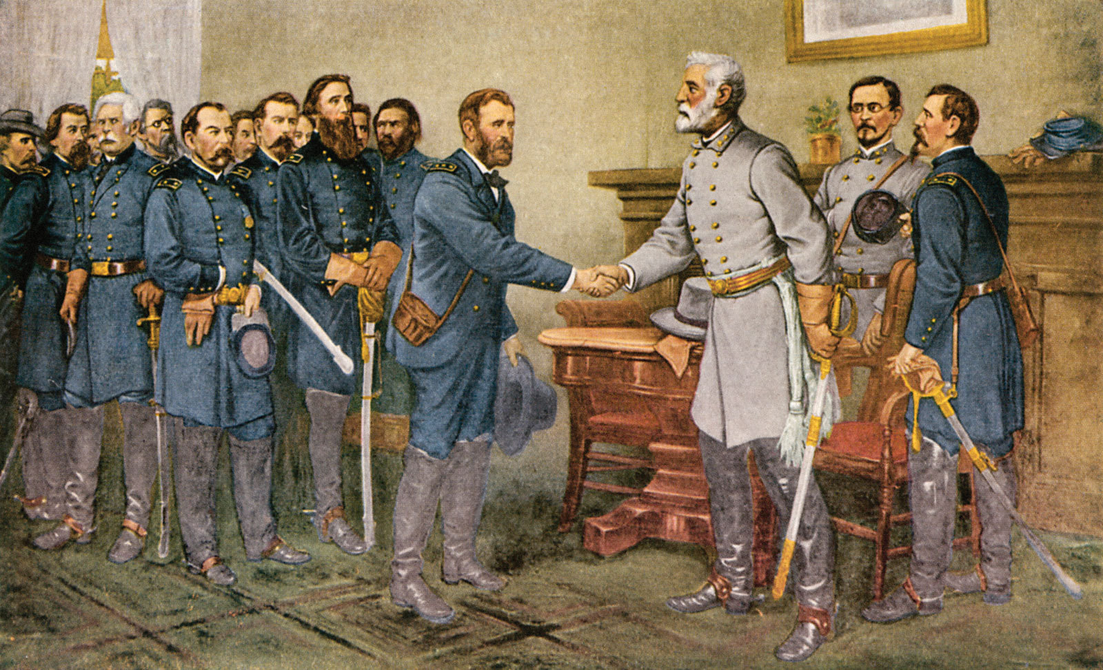 Lee's surrender 1865. 'Peace in Union.' The surrender of General Lee to General Grant at Appomattox Court House, Virginia, 9 April 1865. Reproduction of a painting by Thomas Nast, which was completed thirty years after the surrender.